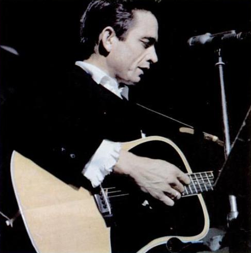 Trade ad for Johnny Cash's single "It Ain't Me, Babe".To better adapt it to his respective Wikipedia article, the ad was cropped and cleaned in a graphics editing program. The original can be viewed at the source below.